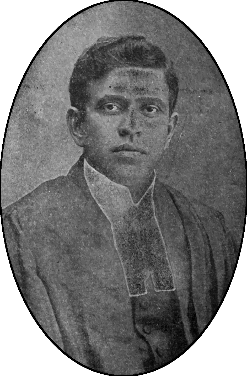 Sinhalese barrister Don Baron Jayatilake (also spelt Jayatilaka, President of the YMBA Colombo.